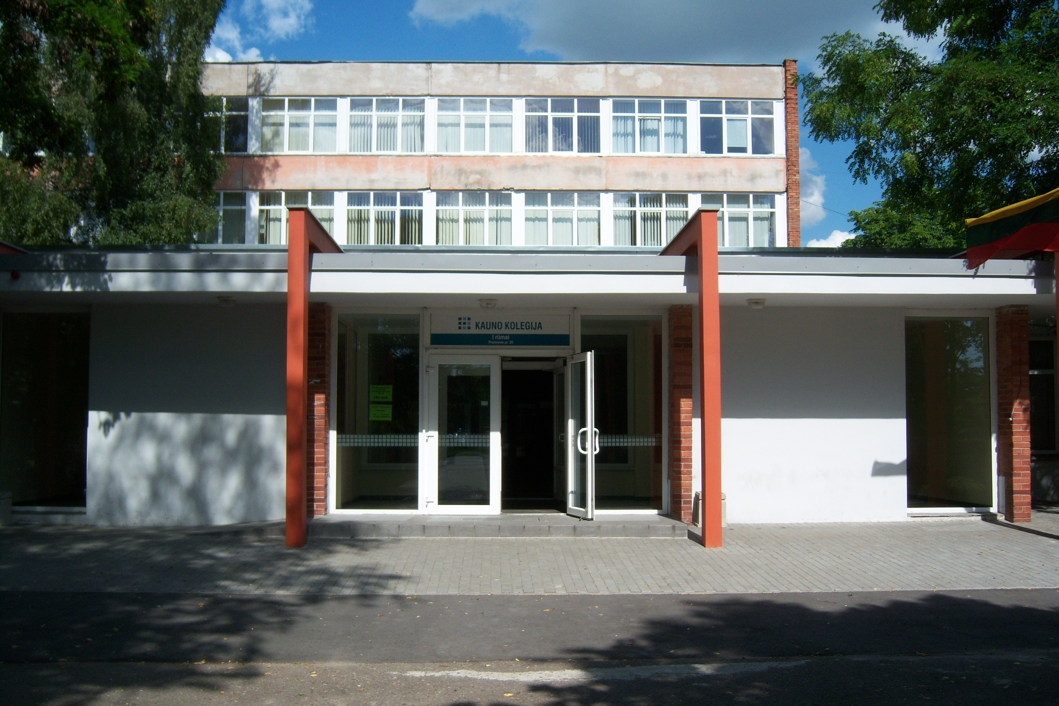 Kaunas College, Lithuania